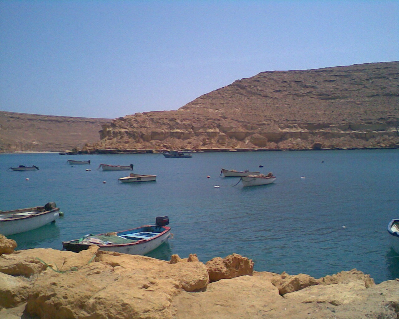 Port of the Libyan village of Bardia.